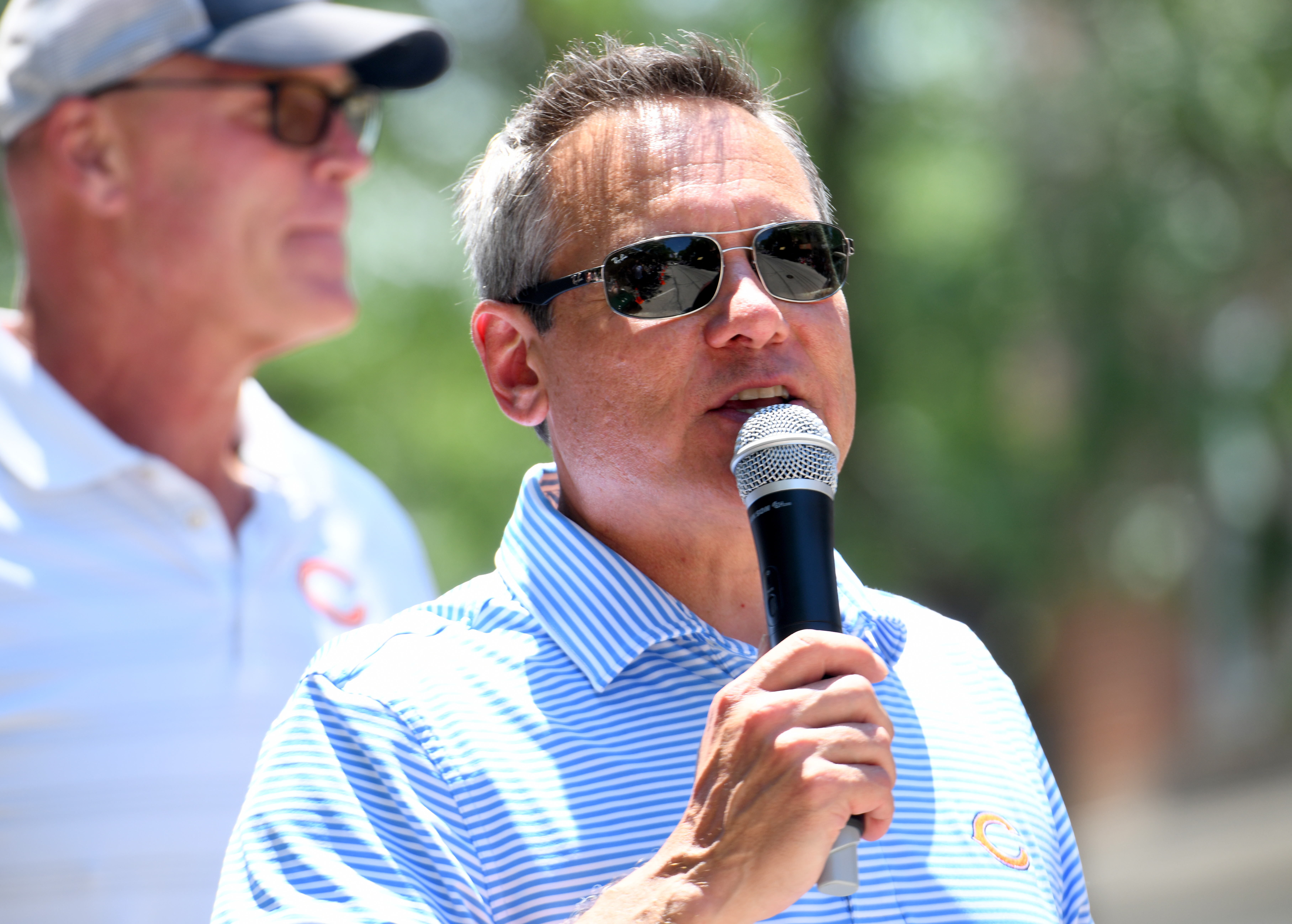 One of the most energetic and exciting voices of the National Football League, Jeff Joniak entered his 17th season behind the microphone as the play-by-play announcer of the Chicago Bears in 2017. Jeff’s passion for the game and for the Bears is linked to a 28-year association with Chicago sports fans. Jeff has hosted the Chicago Bears game day broadcasts since 1997, serves as WBBM Newsradio 780 and 105.9 FM′s Director of Sports Operations while maintaining his afternoon drive-time sports anchor shifts. Additionally, Jeff hosts “The Bears Coaches” radio show on WBBM Newsradio 780 and 105.9FM with Bears head coach Matt Nagy each Monday night during the season. On game days, Joniak and Bears analyst Tom Thayer co-host Bears produced television shows, “Bears Game Day Live” and “Bears Game Night Live.” During the season, Jeff pens his weekly “Keys to the Game” on Jeff and the Bears Radio staff earned 2011, 2009, and 2007 Peter Lisagor Awards, multiple Associated Press “Best Sports Reporting” awards for “Joniak’s Journal” heard in the WBBM Bears radio pre-game show including in 2013 and in 2006 for their coverage of Super Bowl XLI. Jeff earned the Silver Dome Award for “Best Play-by-Play” in 2006, and 2007, 2009, and 2013 regional RTNDA Edward R. Murrow Awards for “Joniak’s Journal”. He also has earned Chicago Midwest television Emmy Awards in 2009 and 2012 for his work on the Bears television shows.